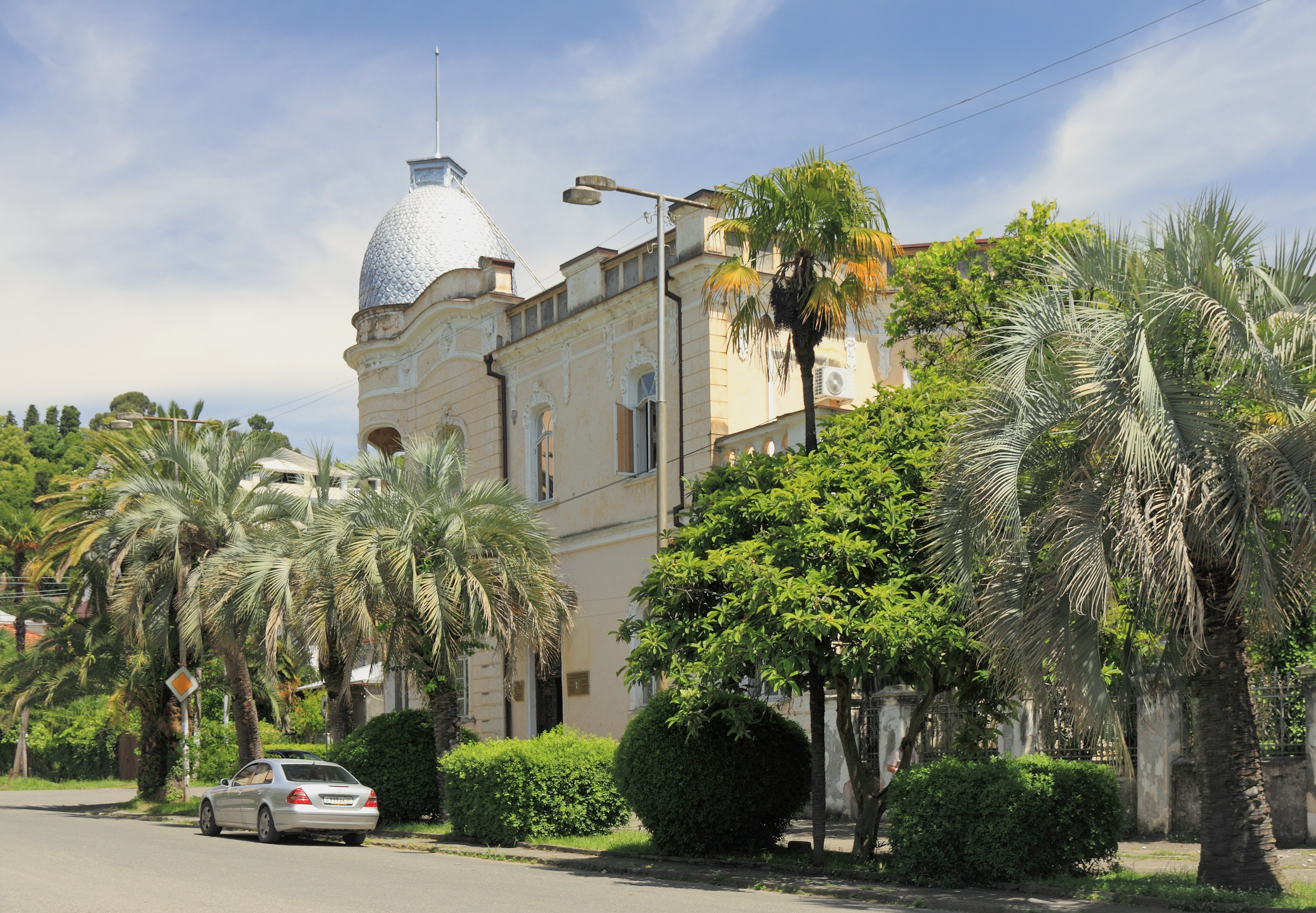 The D.I. Gulia Abkhazian Institute for Research in the Humanities. Sukhumi, Abkhazia.